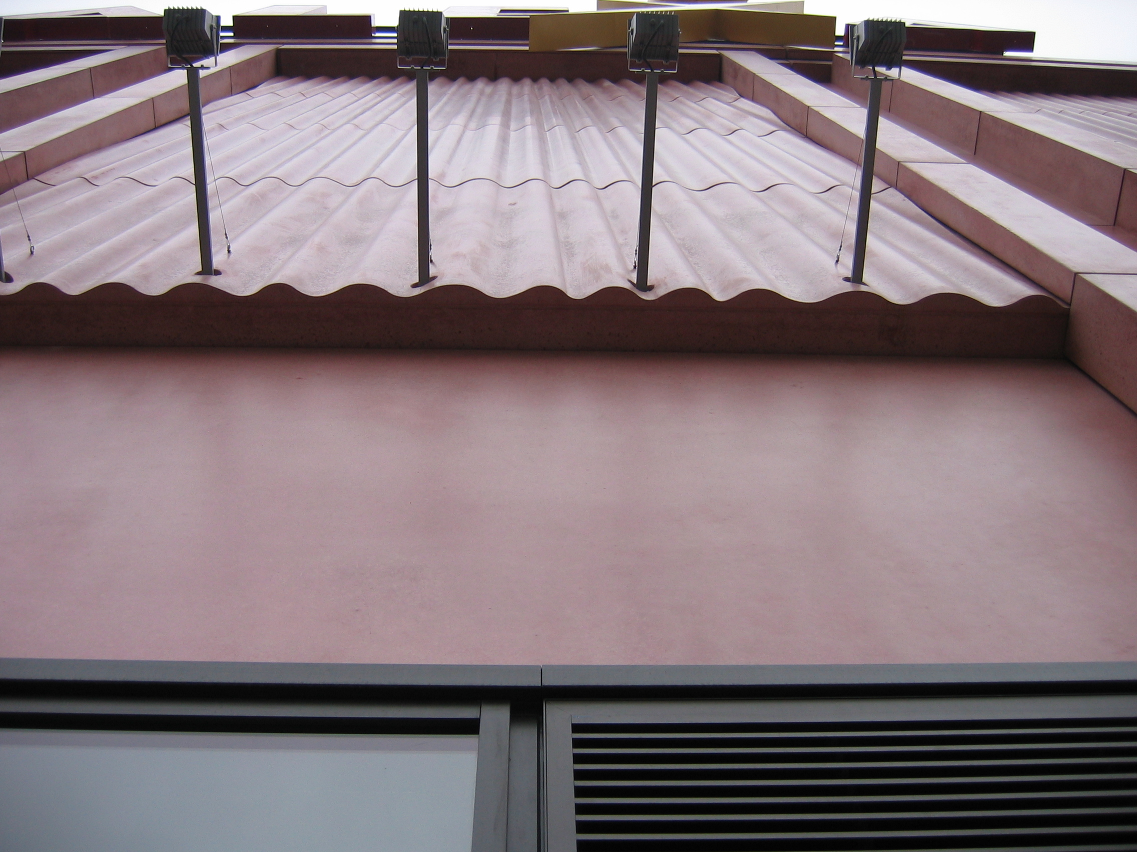 red exposed concrete fassade of the Alexa shopping mall in Berlin